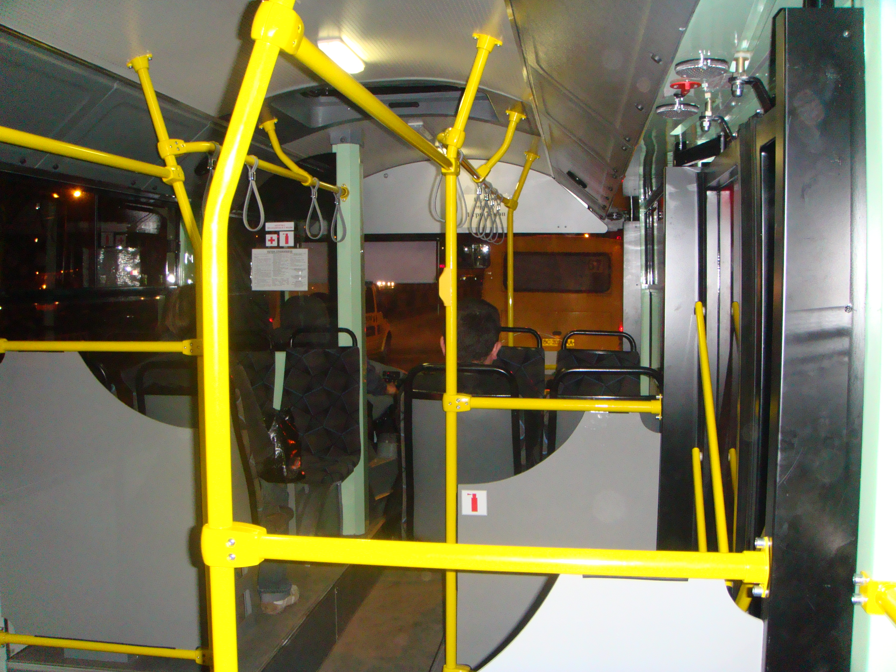 Bogdan A092.80 interior